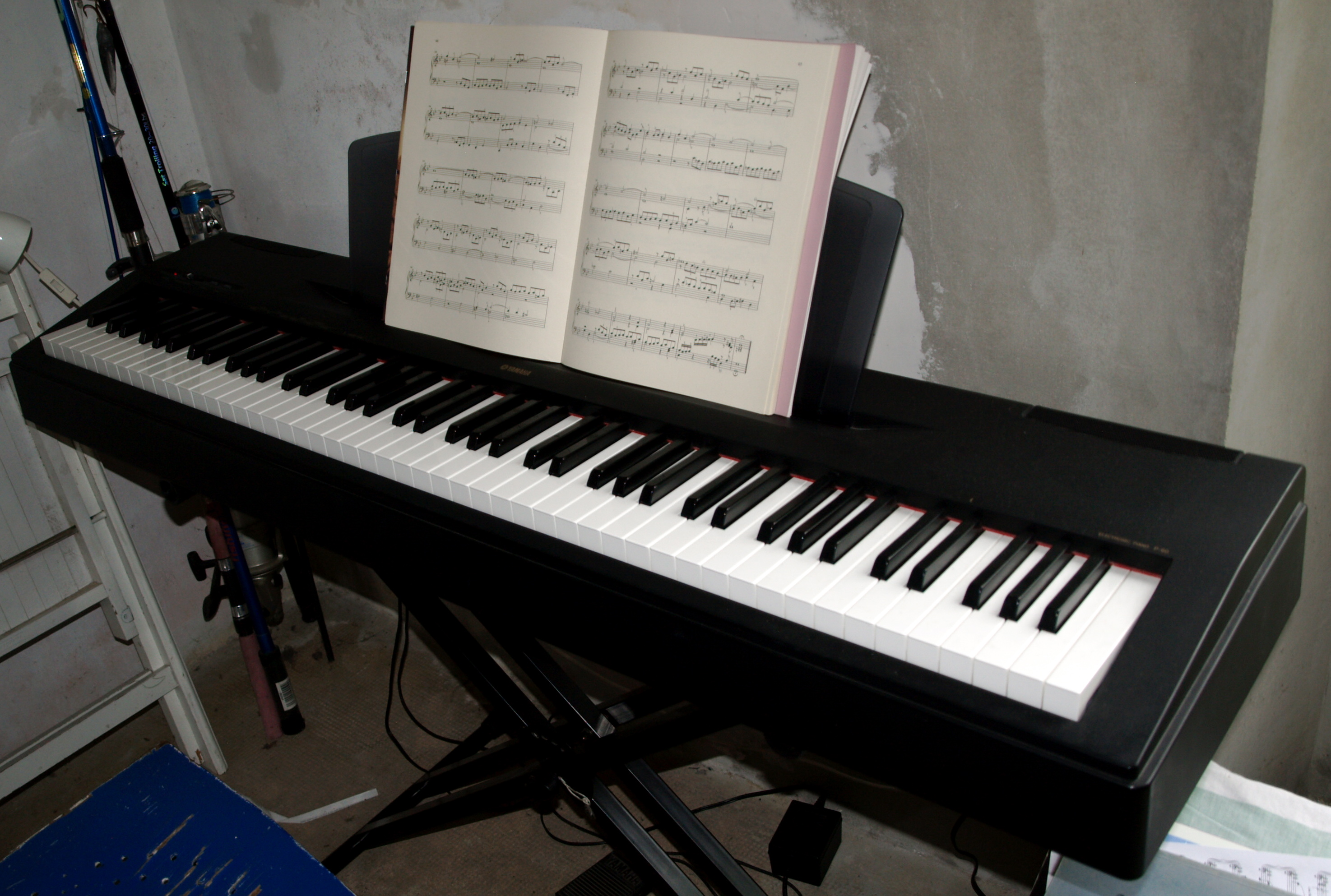 Yamaha electric piano P-60